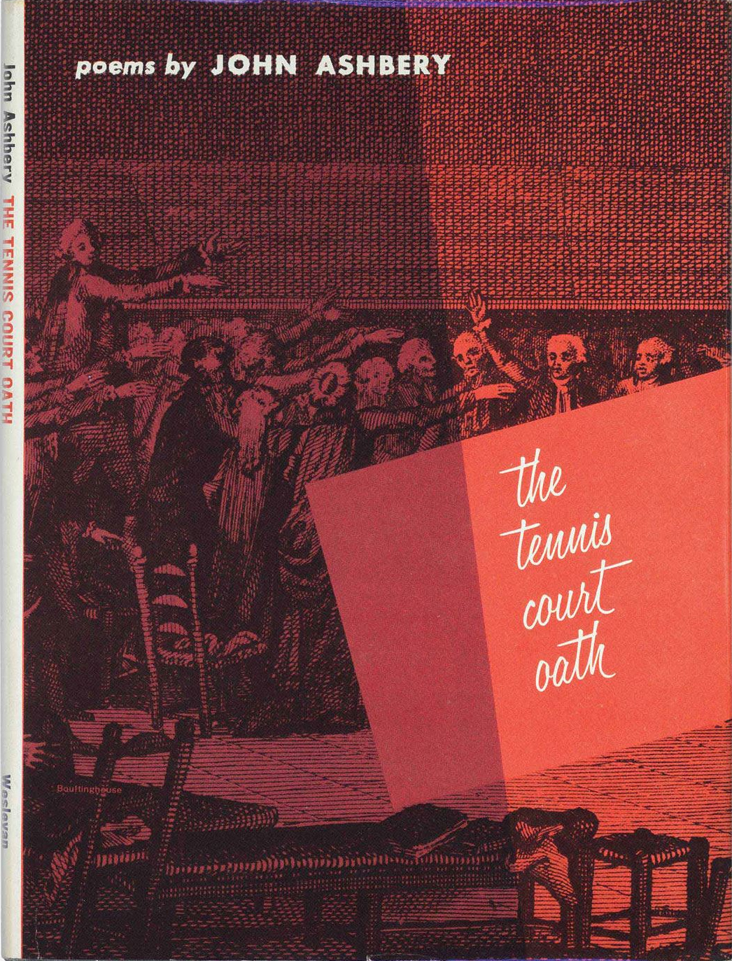 Scanned cover of the dust jacket for the hardcover first edition of John Ashbery's 1962 poetry collection The Tennis Court Oath. The cover illustration is said to be a circa-1815 print depicting the Serment du Jeu de paume (called the "Tennis Court Oath" in English), a decisive moment in the French Revolution.